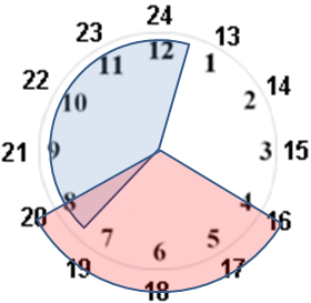 This is visual description of Temple timings of Garbharakshambigai Temple